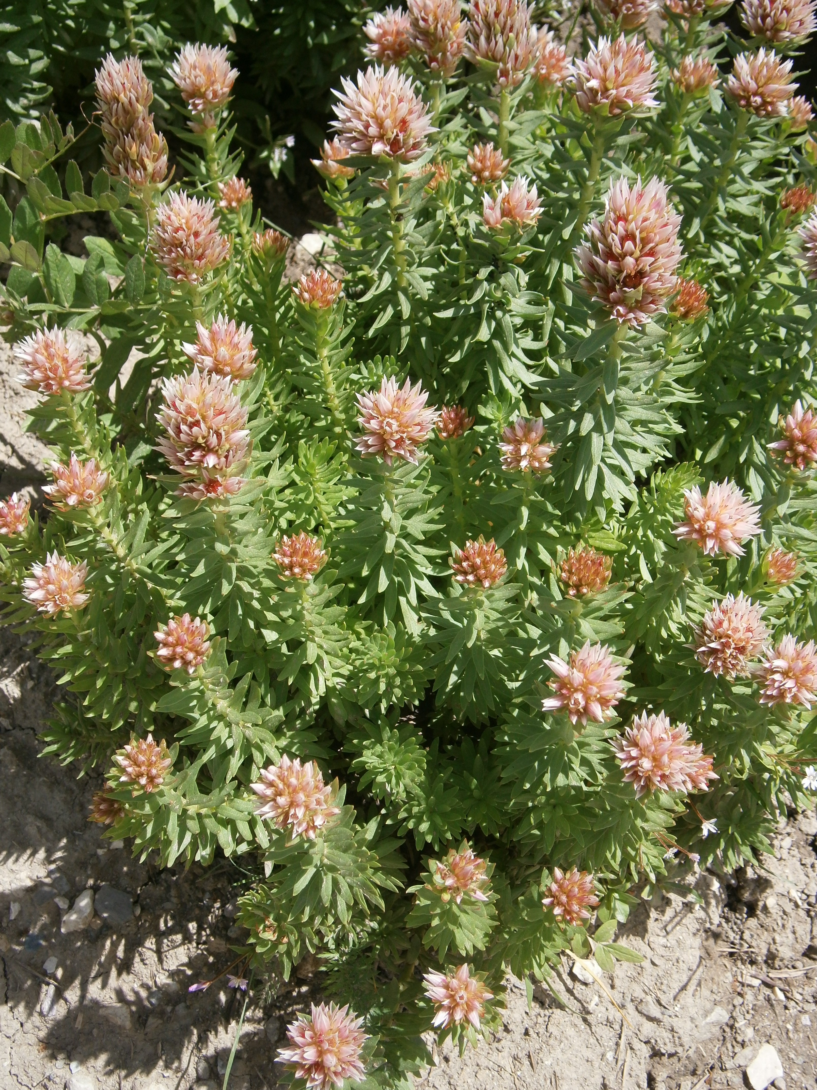 Rhodiola rhodantha in the Jardin Botanique Alpin du Lautaret